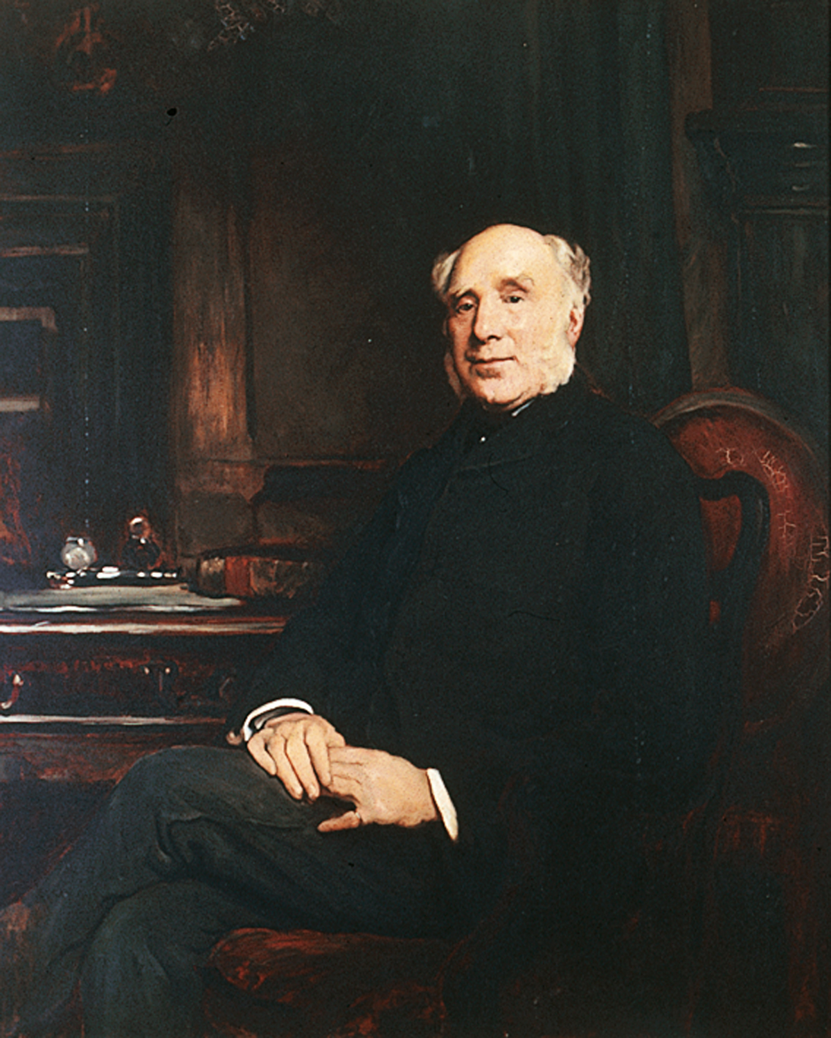 Sir John Barran MP, JP (1821-1905), clothing manufacturer of Leeds, West Yorkshire, England. "Sir John Barran (1821–1905), Bt, MP, LLD, Member of the Council of Yorkshire College and after the University of Leeds (until 1905) (after Frank Holl)," at The Stanley & Audrey Burton Gallery, University of Leeds